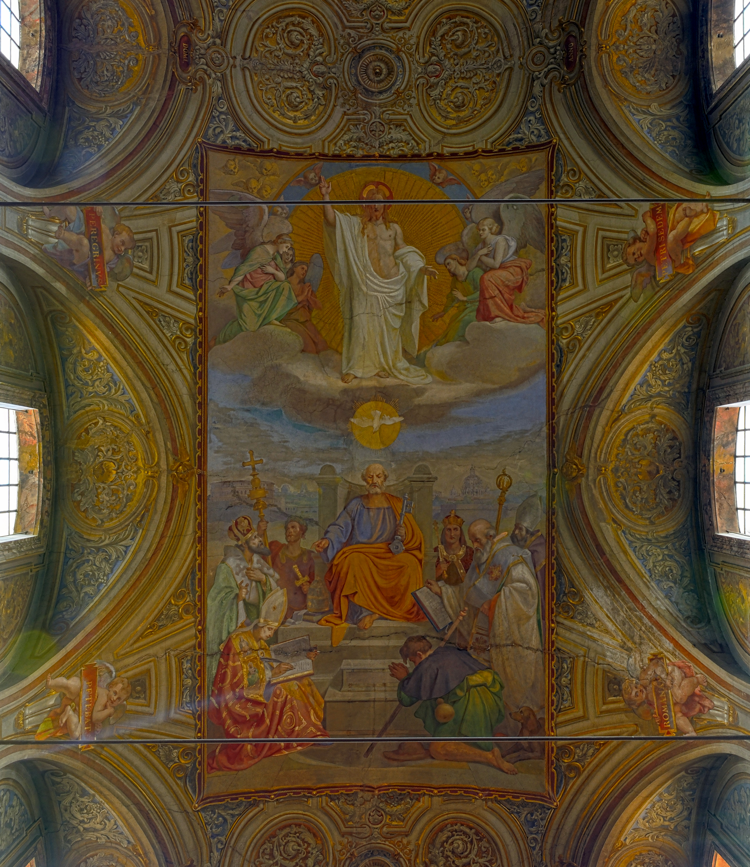 Ceiling of San Rocco all'Augusteo (Rome) HDR